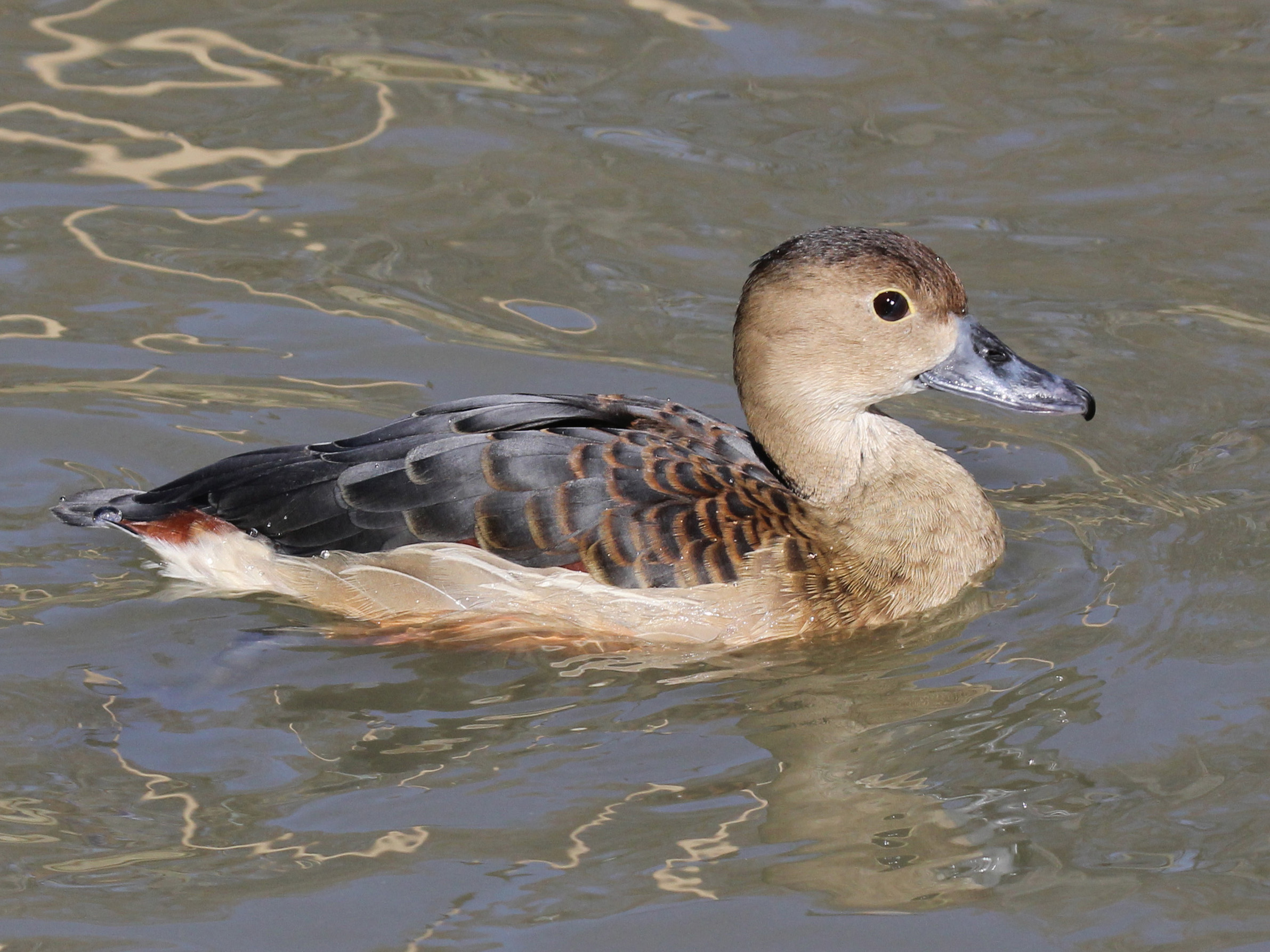 Lesser Whistling Duck, also Indian Whistling Duck (Dendrocygna javanica) - Sylvan Heights Waterfowl Park, Scotland Neck, North Carolina